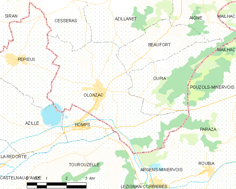 Map commune FR insee code 34189.png - Olonzac